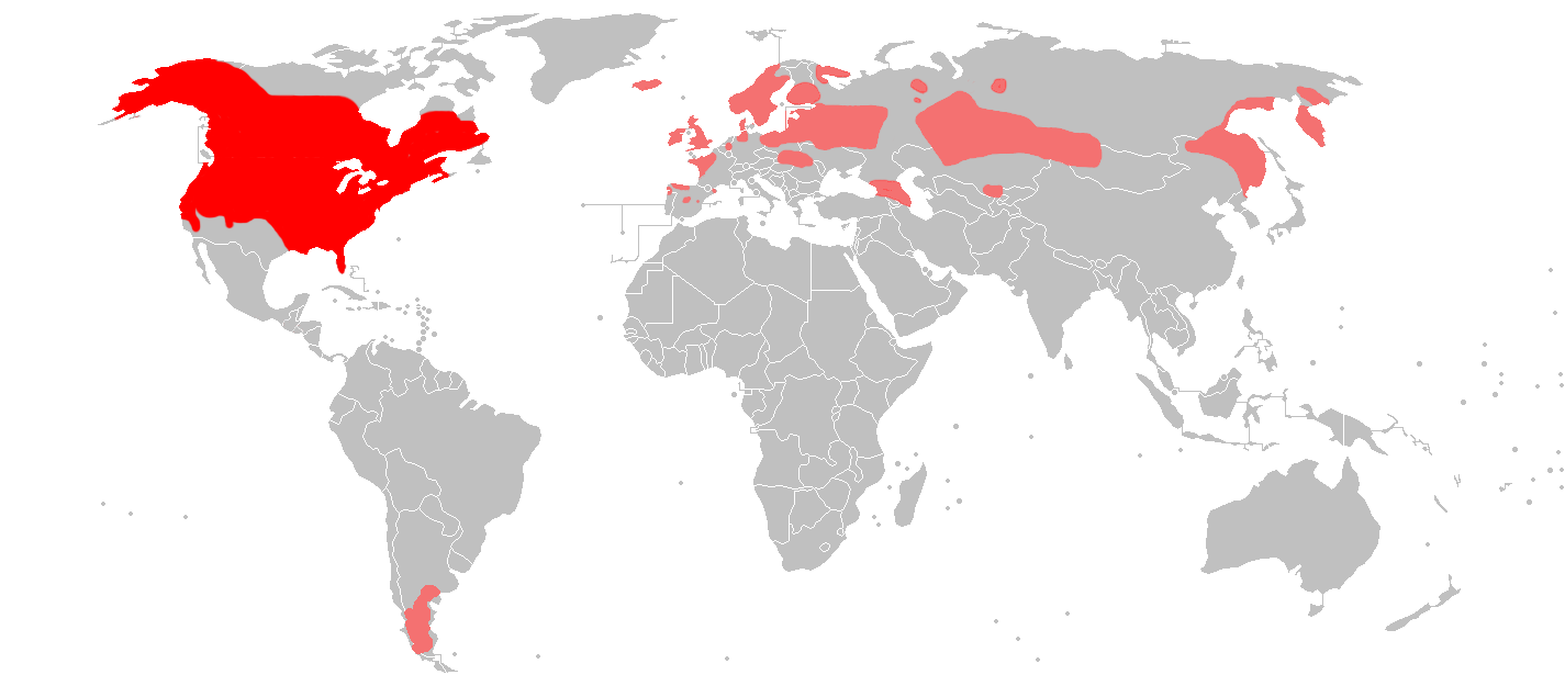 Distribution map of Neovison vison. Original range (red) and where it has been introduced (pink).